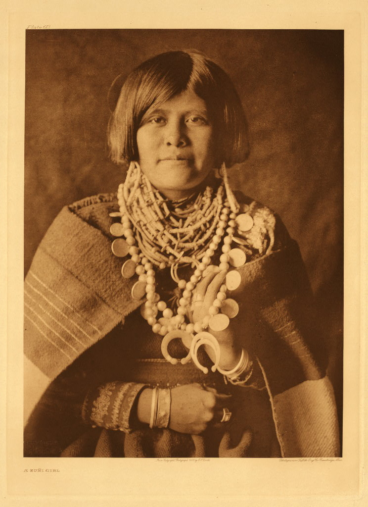 Zuni (1926) — Native American woman of New Mexico.